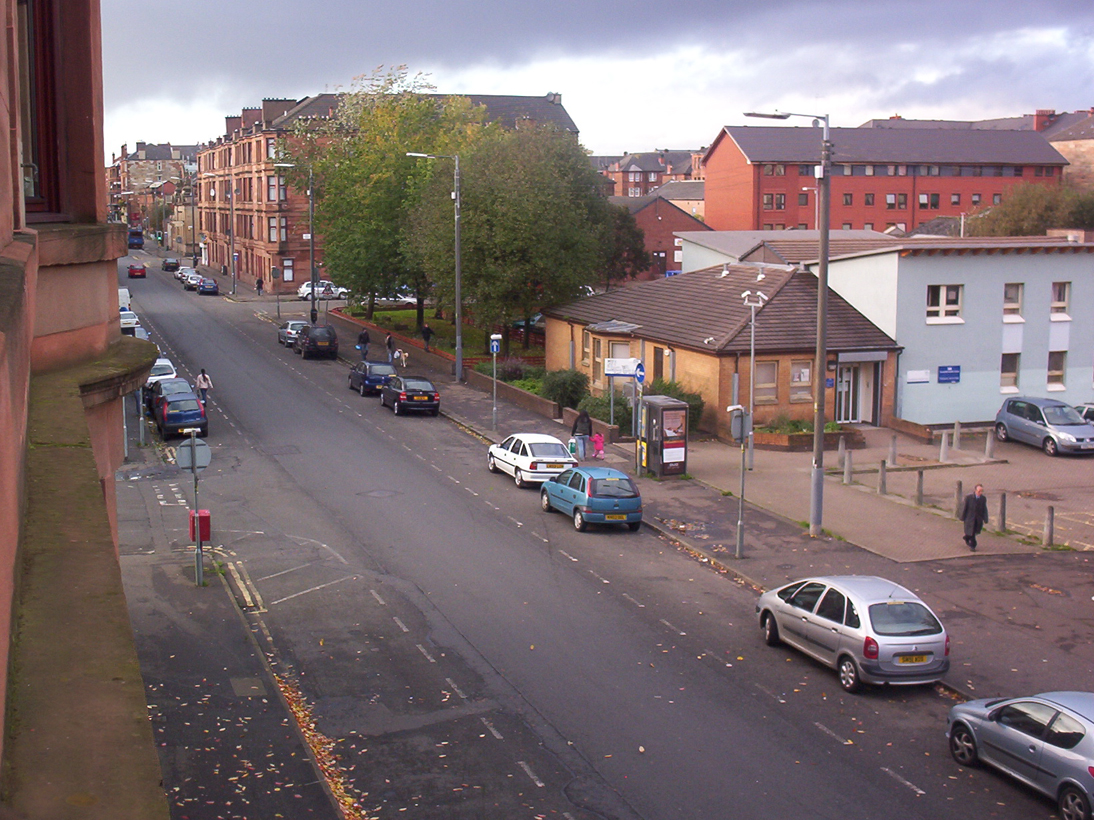 Looking along Calder Street, in Govanhill. In the distance you can see the library and the swimming baths.